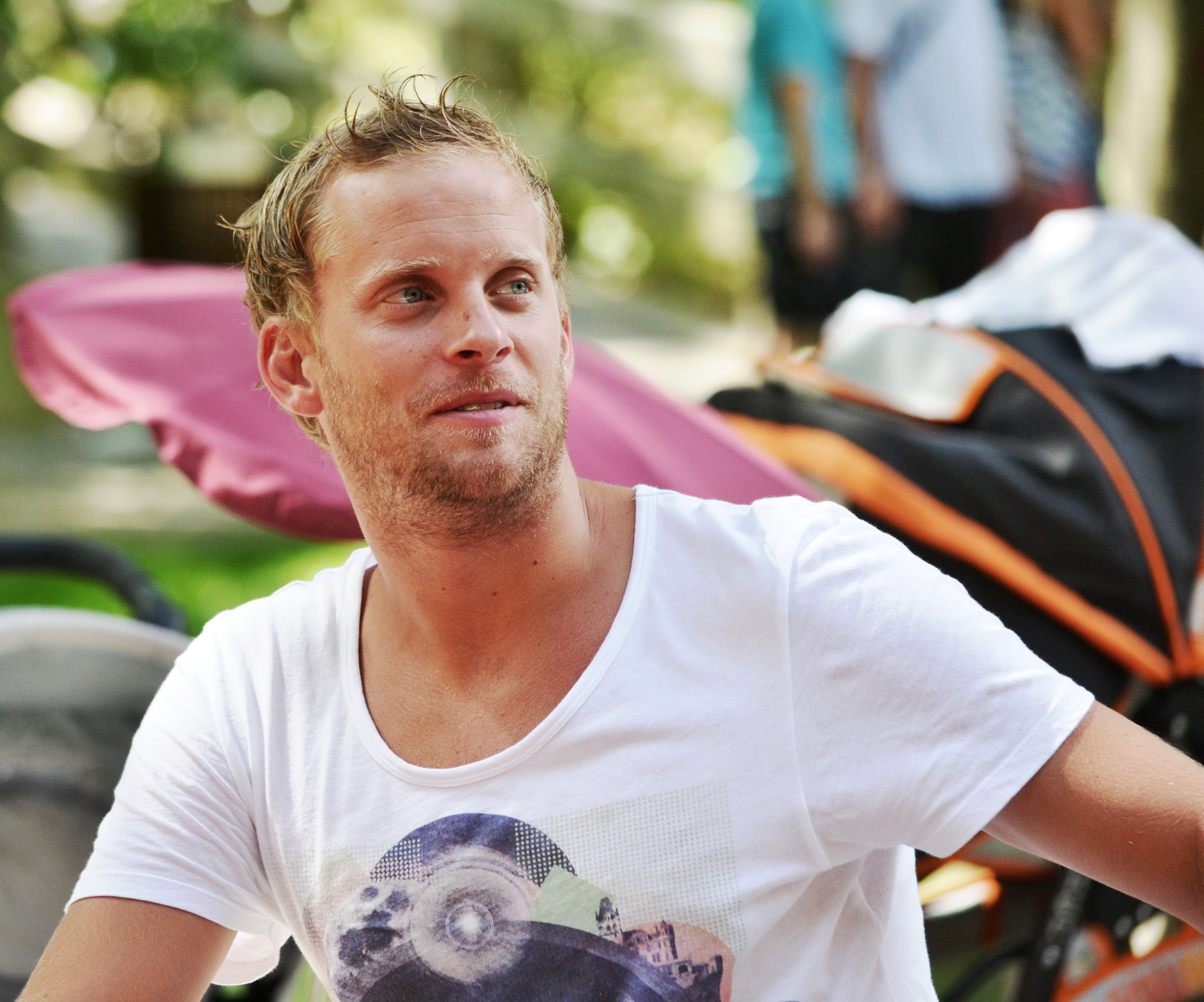 Jakub Prachař, Czech actor